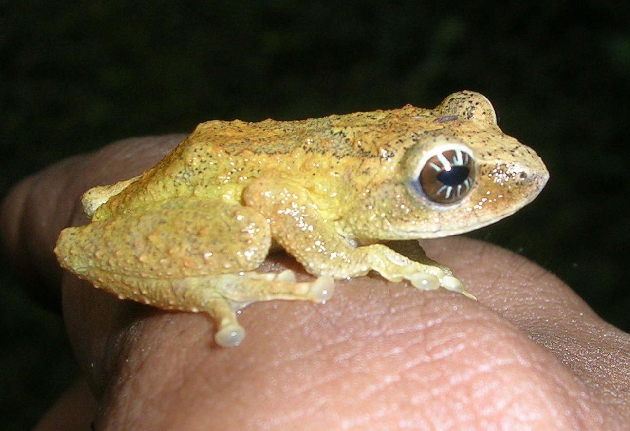 Philautus cf signatus from Kotagiri (Longwood Shola )in the Nilgiris, India